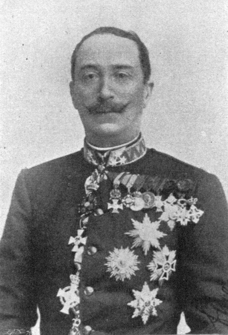 Portrait of Eugen von Albori (1838–1915), Austrian military commander